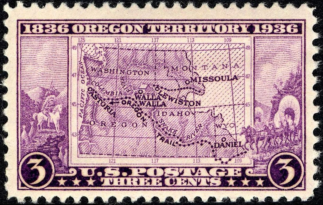 The Oregon Territory was commemorated on its 100th anniversary with a 3-cent stamp on July 14, 1936. It comprised the present states of Oregon, Washington, Idaho, and parts of Montana and Wyoming. The stamp features a map of the Territory, tracing the Oregon Trail, with vignettes of a Native American scene and a covered wagon train.